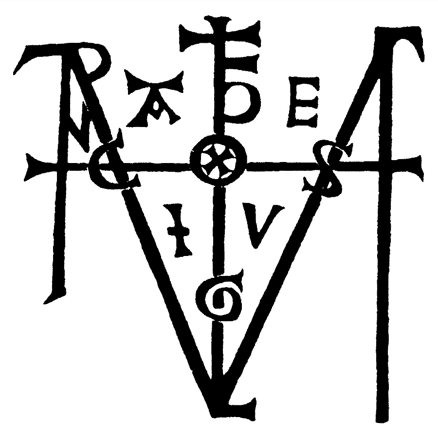 Symbolic device utilised by the Habsburg emperors, created by Frederick III, Holy Roman Emperor